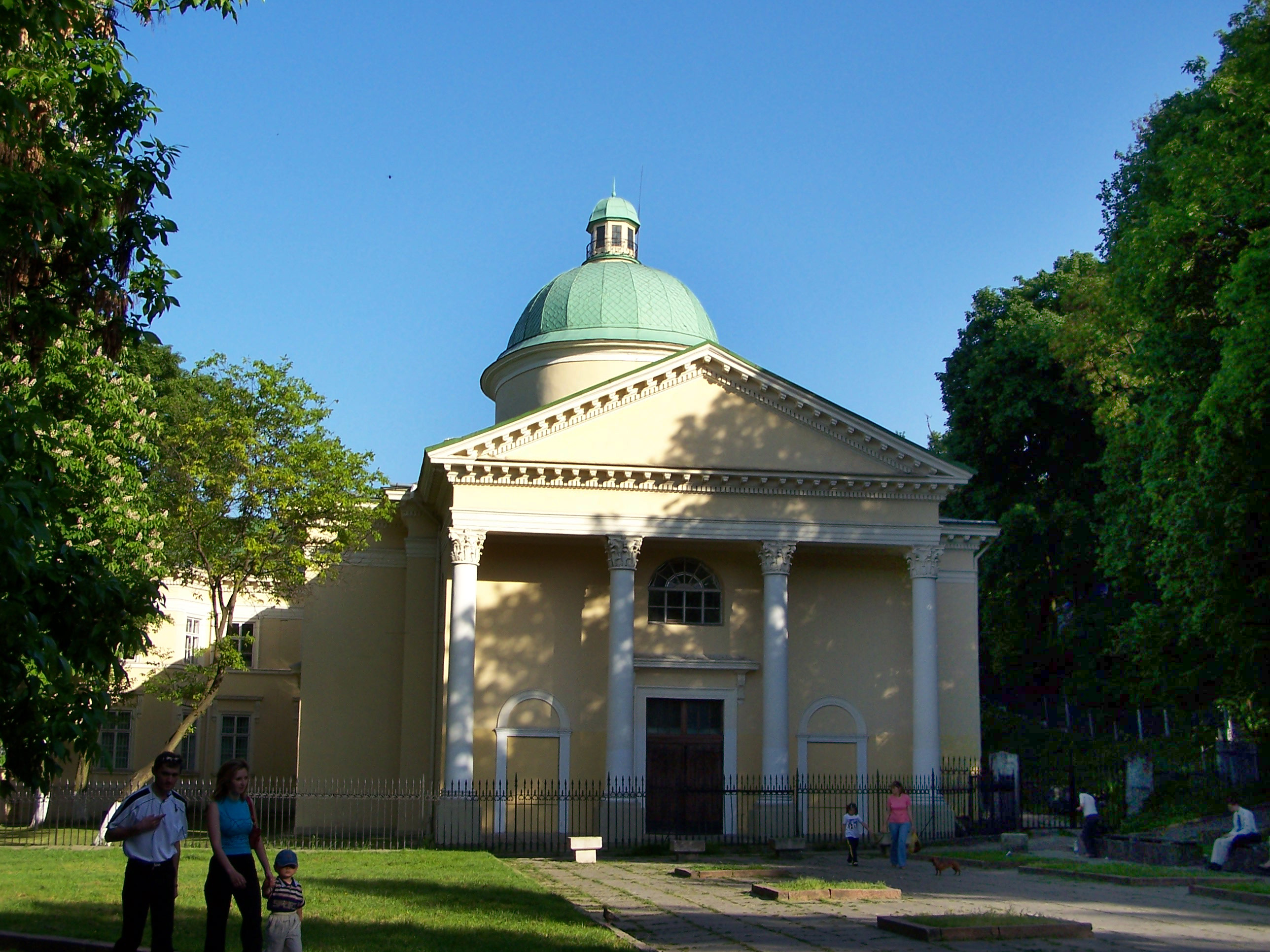 "Ossolineum" in Lviv (Ukraine).